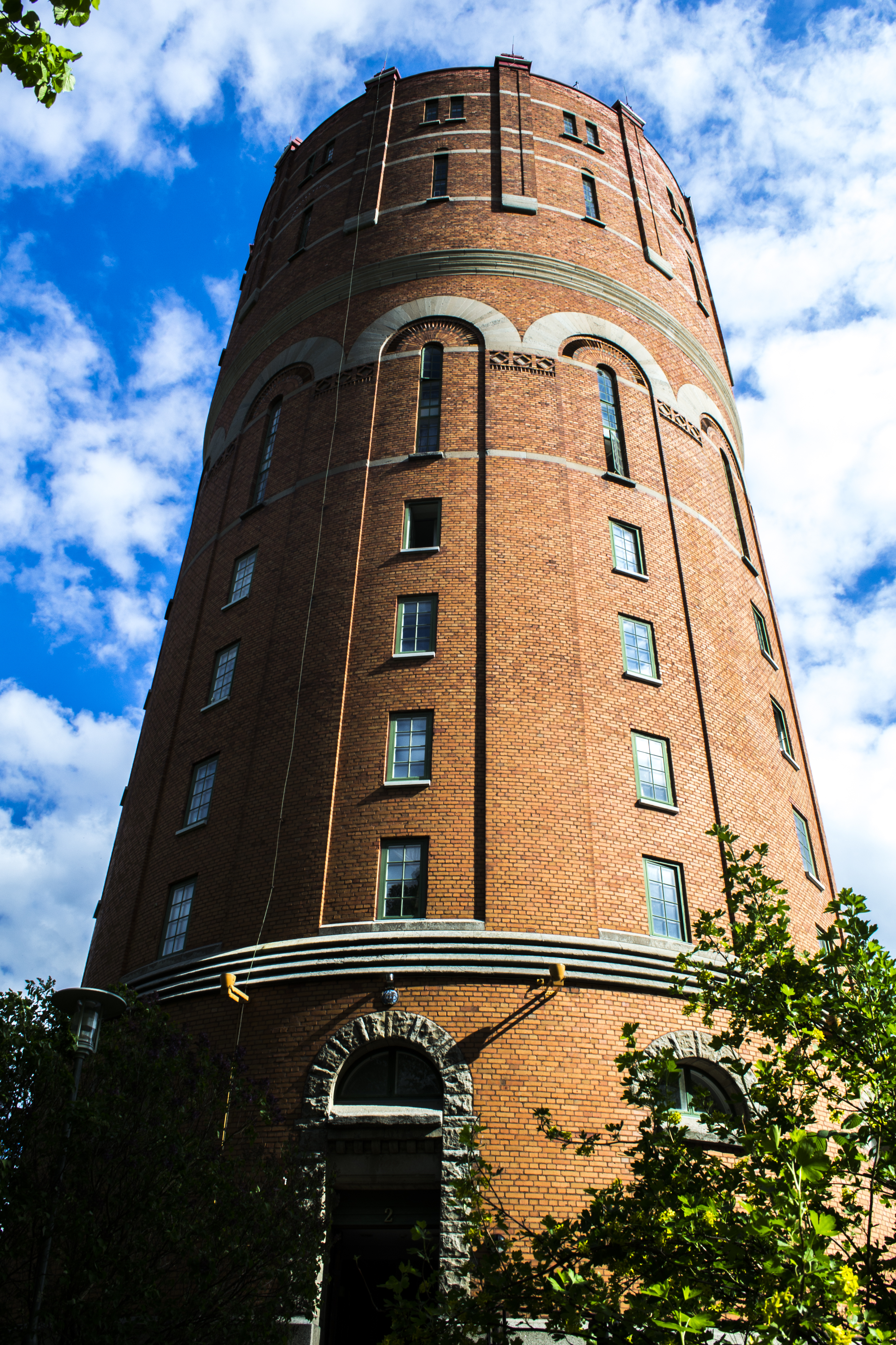 Old watertower